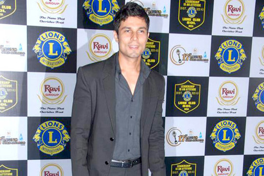 Randeep Hooda at the 17th Lions Gold awards